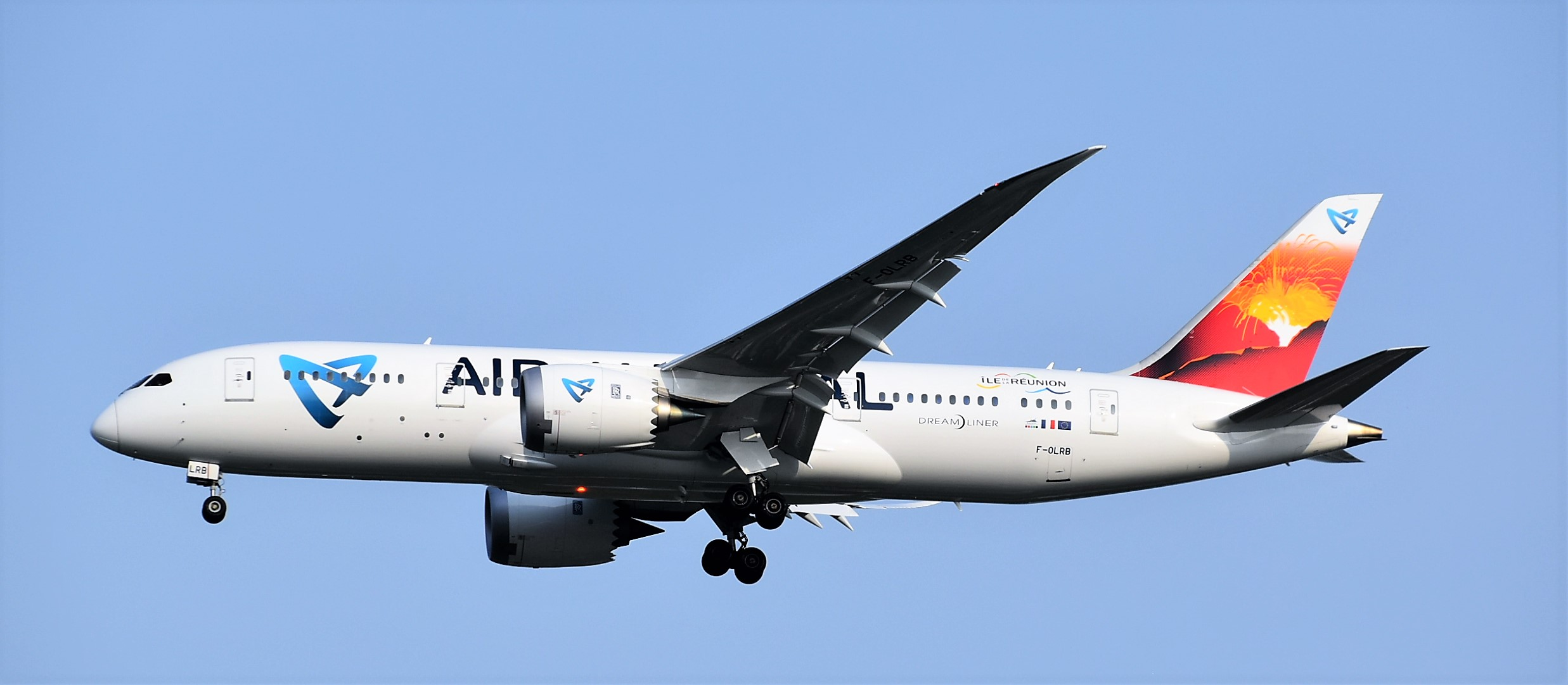 Boeing 787-8 of Air Austral, with "Piton de la Fournaise" tail clrs., on final approach to rwy.19R at Bangkok-BKK,Thailand, 18/05/17.